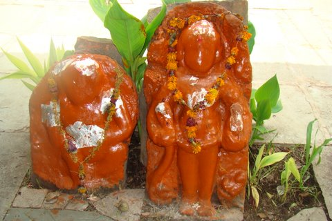 Statue of Dhanvantari at Taxakeshwar temple in Mandsaur, Madhya Pradesh, India